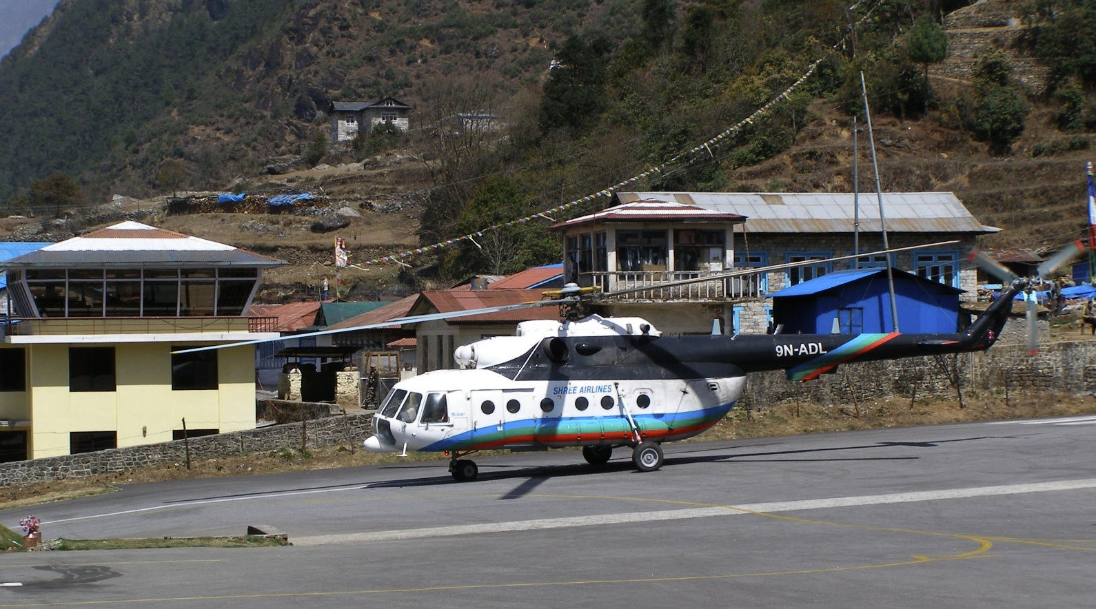 A chartered Mi-17 helicopter leaves Lukla for Syangboche.